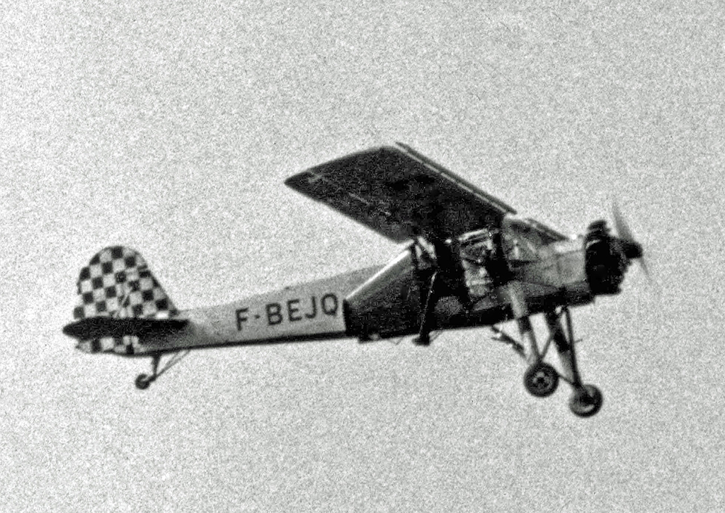 Leo Valentin. the "Birdman", aboard a Morane-Saulnier MS.502 before a gliding flight using his wings. He is facing backward with his wooded wings folded. Leeds-Bradford Airport 1955.